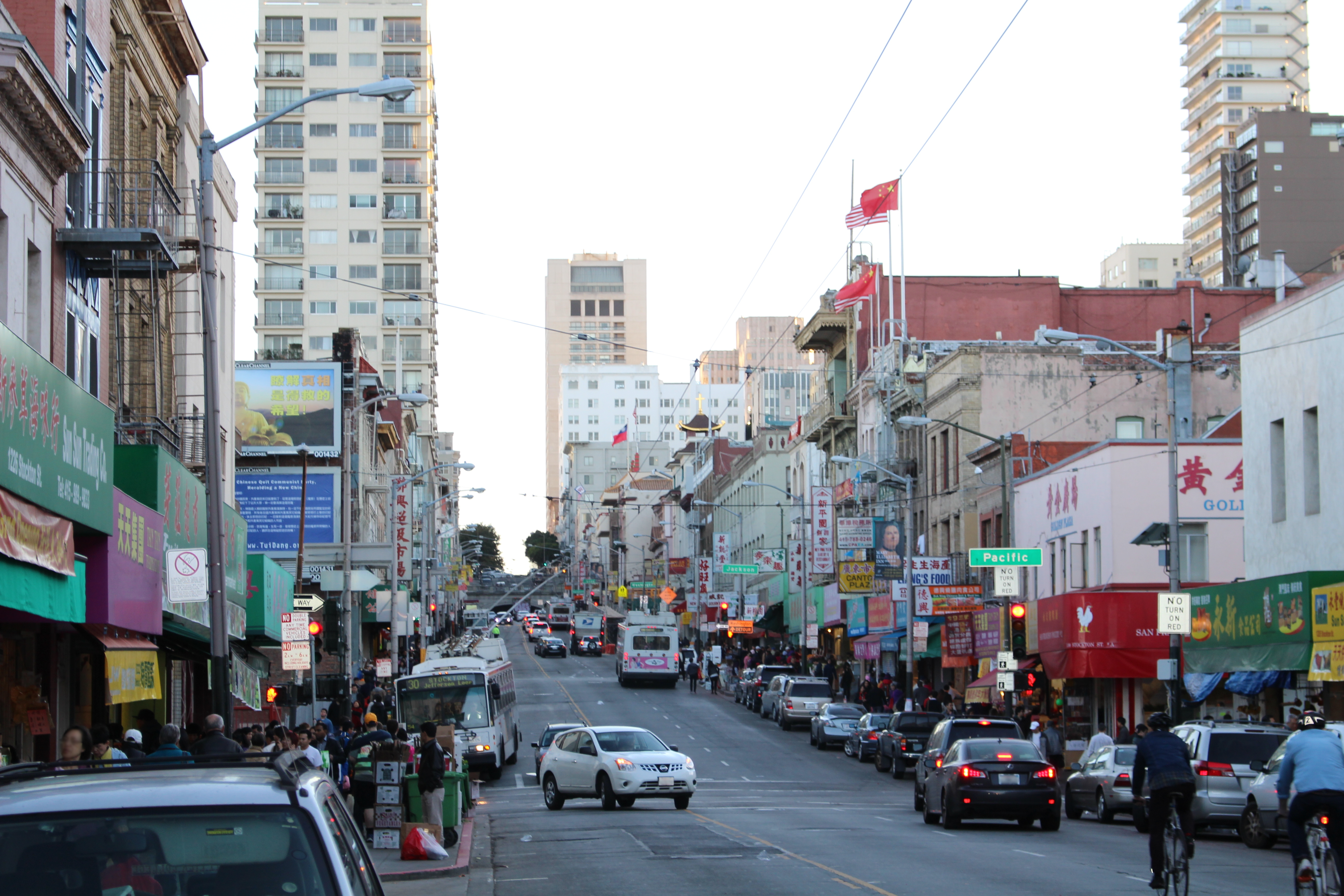 Stockton Street in San Francisco's Chinatown, as seen from near the corner of Broadway Street facing South, at dusk. (Some number plates and/or faces blurred.)